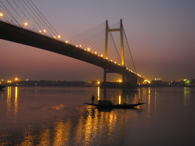 Vidyasagar Setu, also known as the Second Hooghly Bridge, is a bridge over the Hooghly River in West Bengal, India. It links the city of Howrah to its twin city of Kolkata. The bridge is a toll bridge for all vehicles. At a total length of 822.96 m, it is the longest cable-stayed bridge in India and one of the longest in Asia. It was built at a cost of Rs 388 crores and commissioned on October 10, 1992.